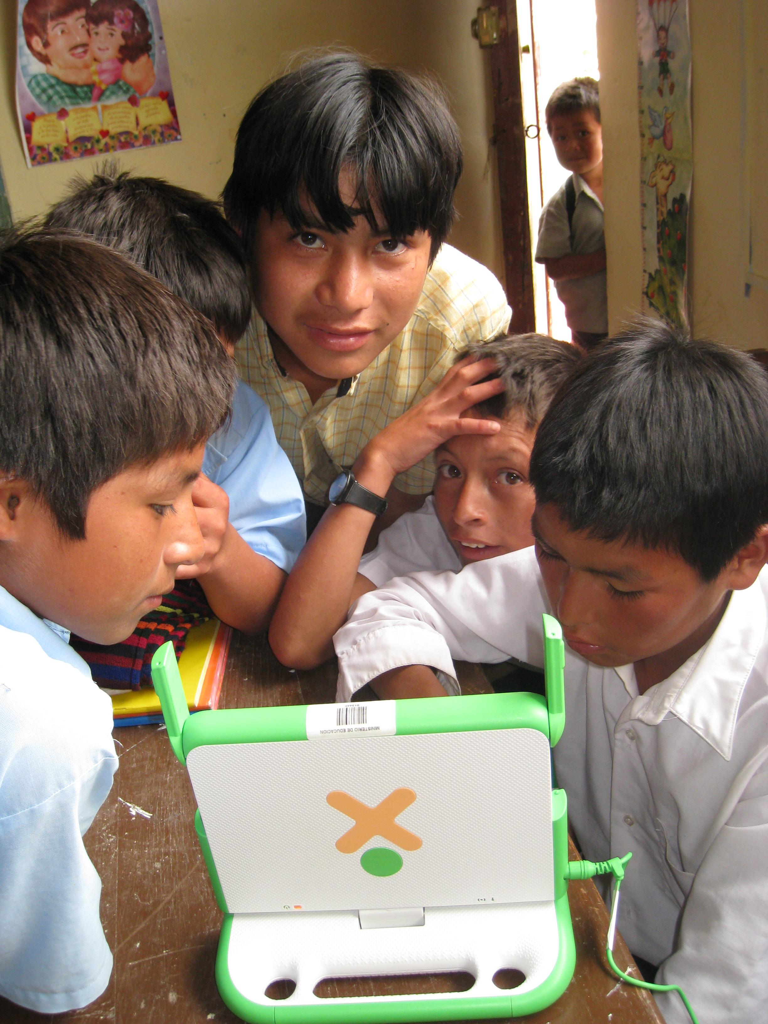 Peruvian children looking at a OLPC laptop.